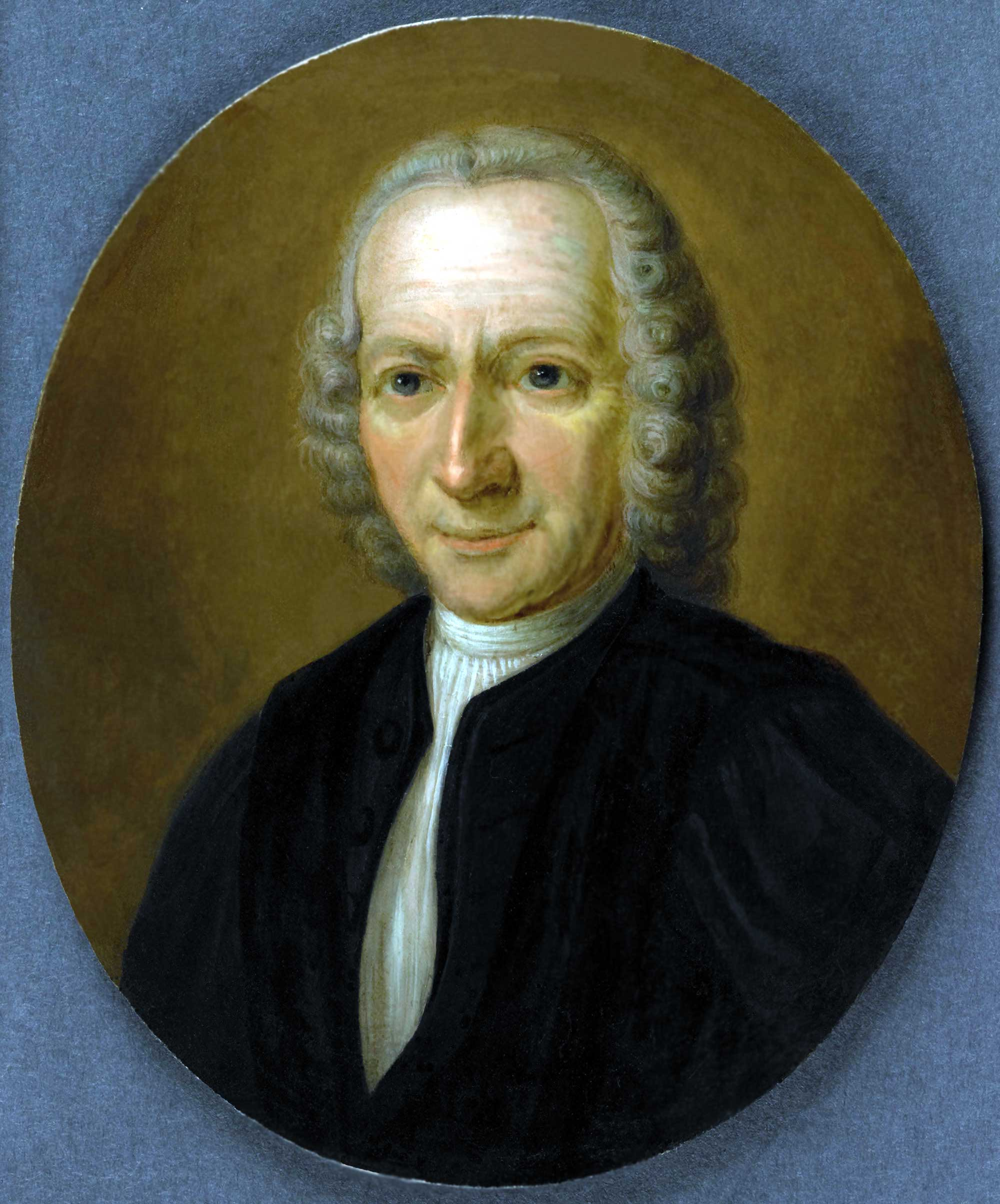 Adriaan van Royen (1704-1779 Dutch physician and botanist